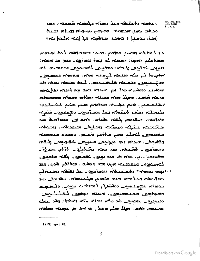 Syrisch-Römisches Rechtsbuch. Seite 2 der Ausgabe von Jan Pieter Nicolaas Land: Anecdota syriaca. Collegit, edidit, explicuit. In: Joannis Episcopi Ephesi Monophysitae Scripta historica quodquod adhuc inedita supereant Syriacae edidit. Anecdoton syriacorum tomus secundus. Lugduni Batavorum, apud E. J. Brill. Academiae typographum, MDXXXLVIII.